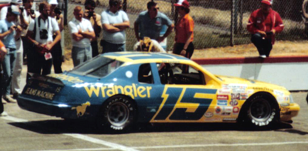 The Bud Moore owned Wrangler Ford #15 of Dale Earnhardt. Dale drove 2 seasons for Moore in the Ford, winning 3 races and finished 8th this weekend in the Van Scoy 500. While the other teams brought the boxy 1982 version of the T-bird to Pocono in 1983, the Moore team used the sleek 1983 version that was one of my favorite cars.Dale Earnhardt #15